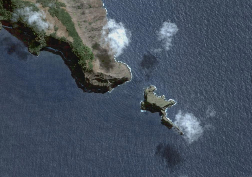 Terihi island view from a height of 5 km